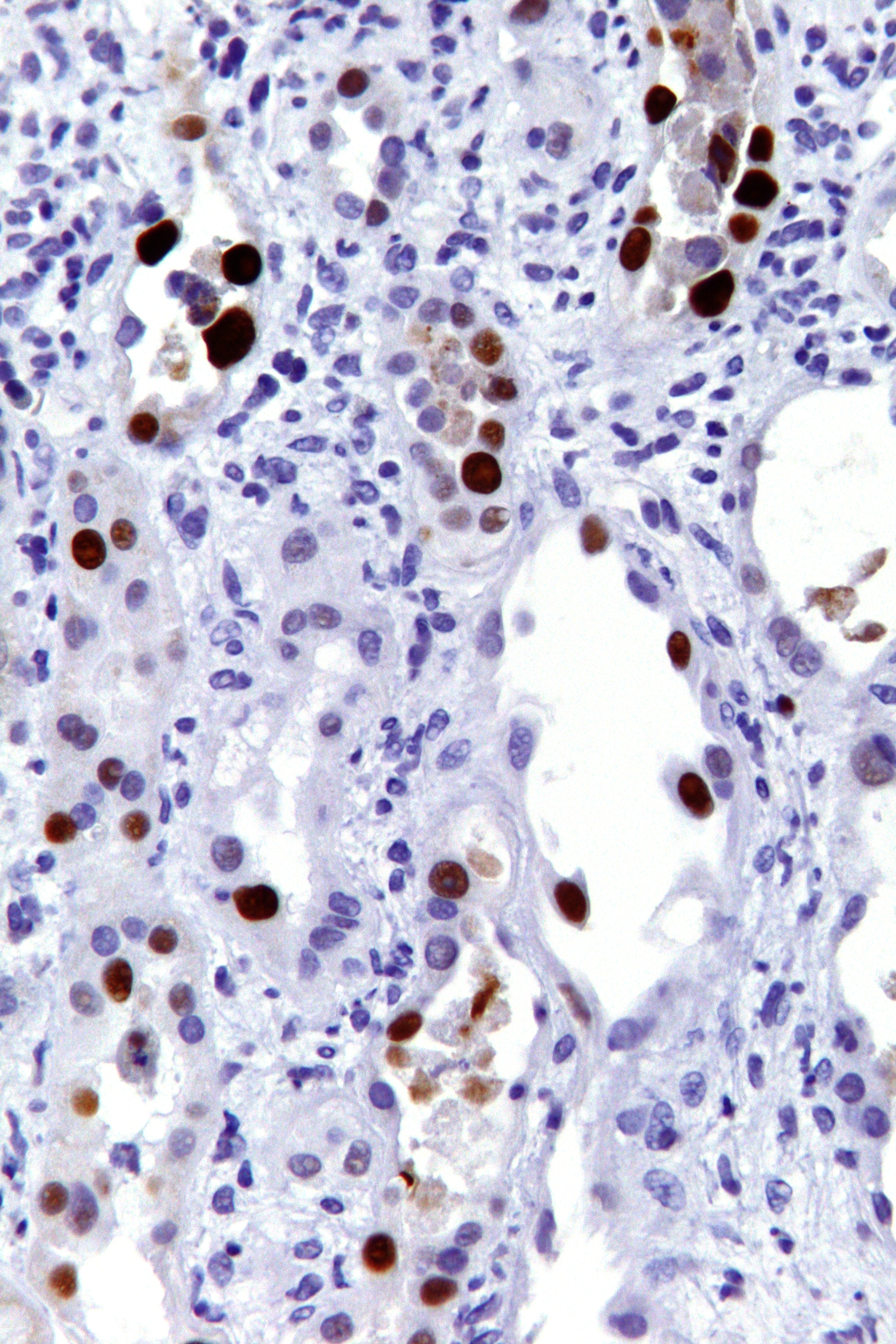 Very high magnification micrograph of post-kidney transplantation polyomavirus nephropathy. SV40 immunostain.